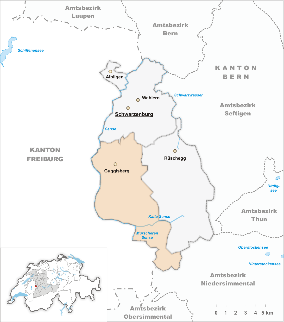 Municipality Guggisberg